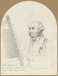 J. H. Smith after George Philip Reinagle, Portrait of Philip Reinagle (1749-1833), pencil on paper